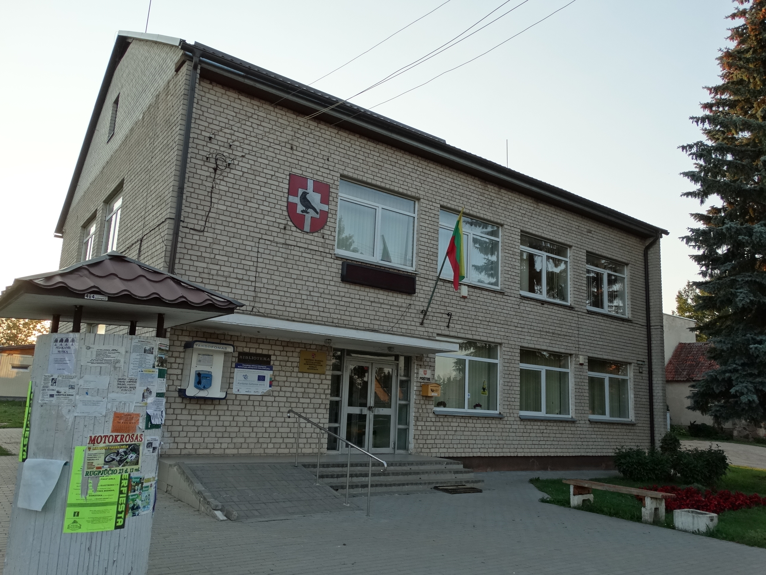 Eldership, Kamajai, Rokiškis District, Lithuania